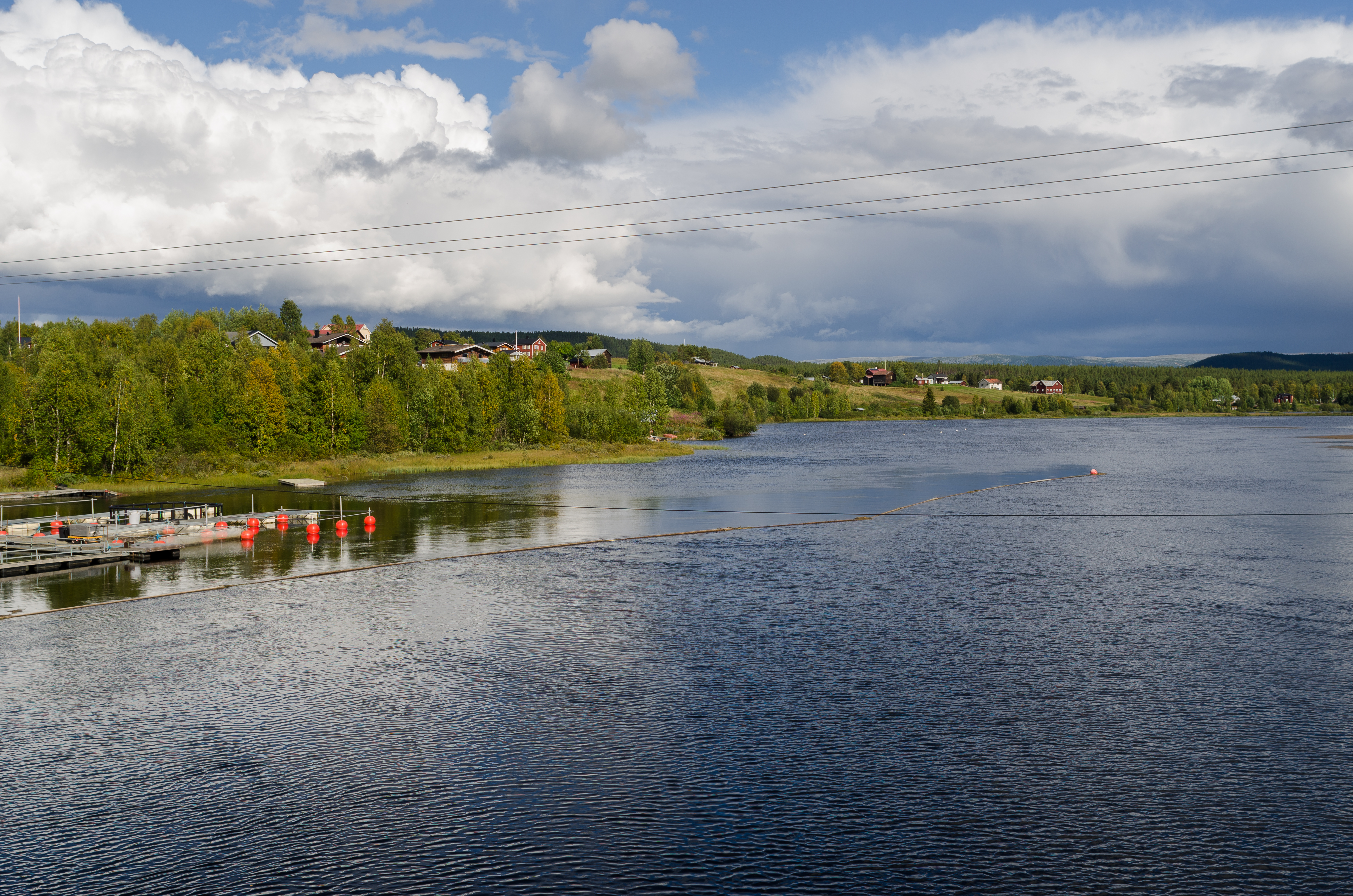 The river Ljusnan and the village Hedeviken in Härjedalen Municipality, Jämtland County, Sweden.